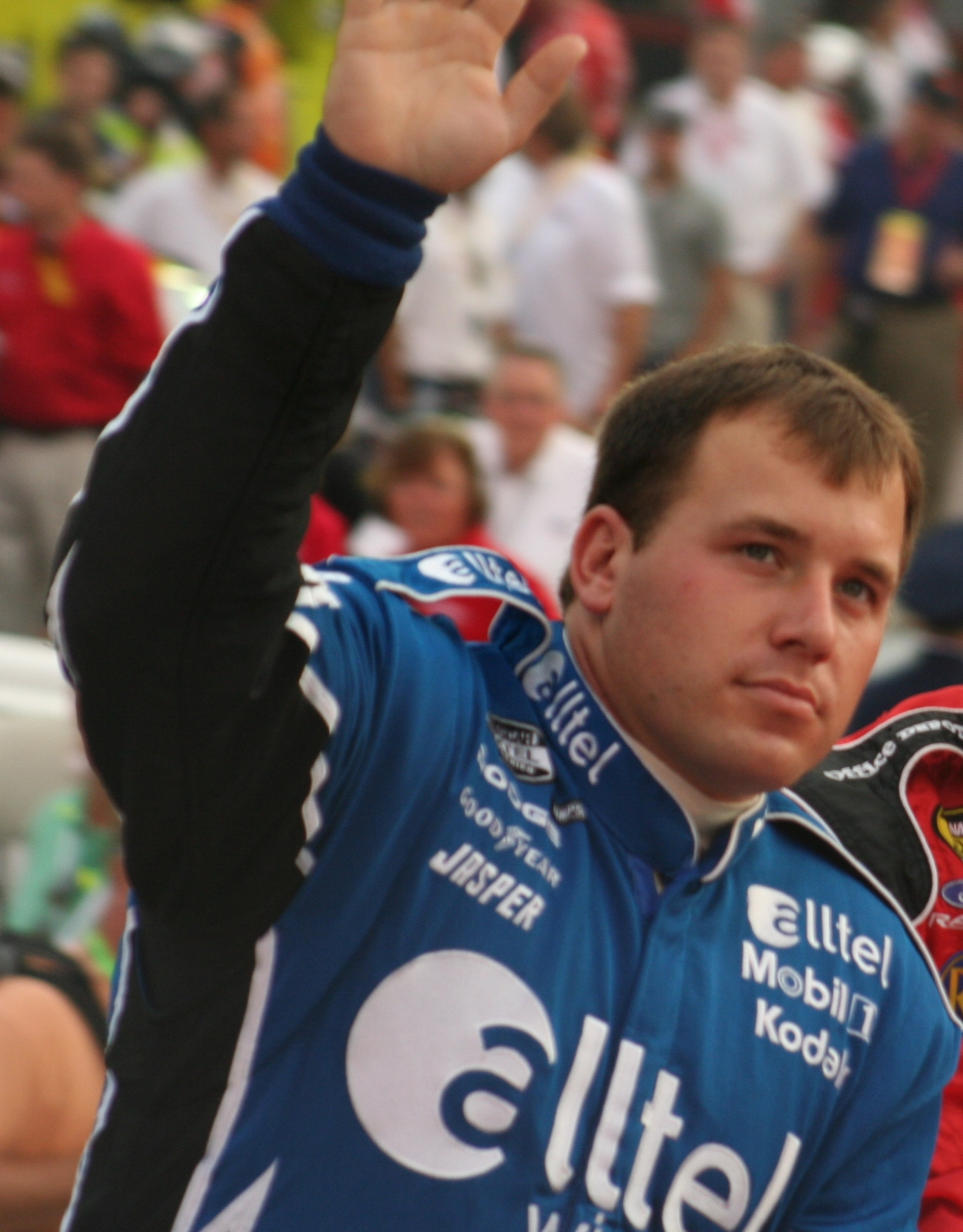 NASCAR driver Ryan Newman at Bristol Motor Speedway